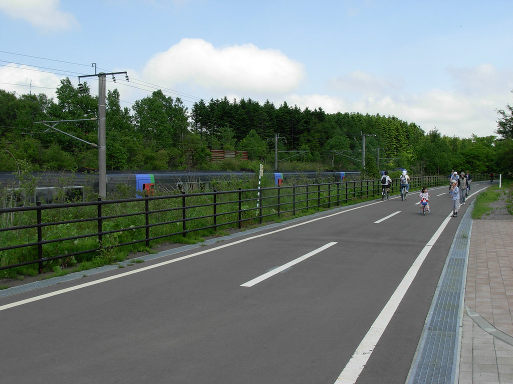 The Hokkaido Prefectural Road Route 1148 and JR Hokkaido Chitose Line in Nishinosato, Kitahiroshima City